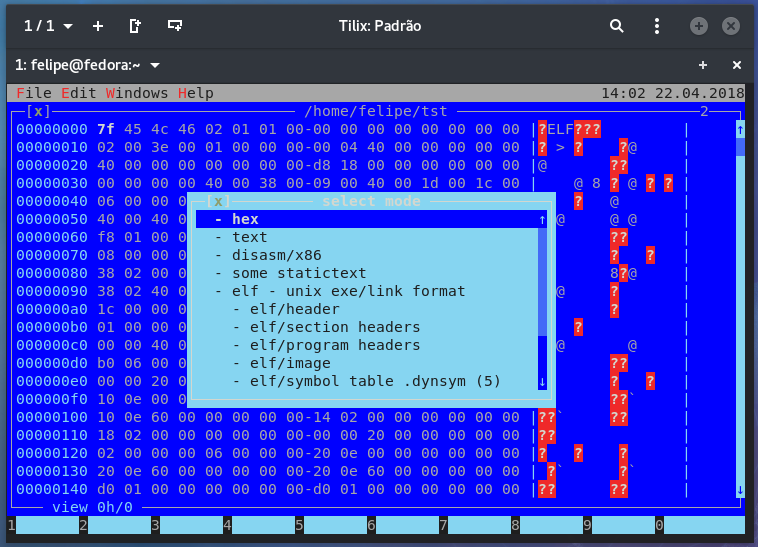 Mode screen of the HT Editor